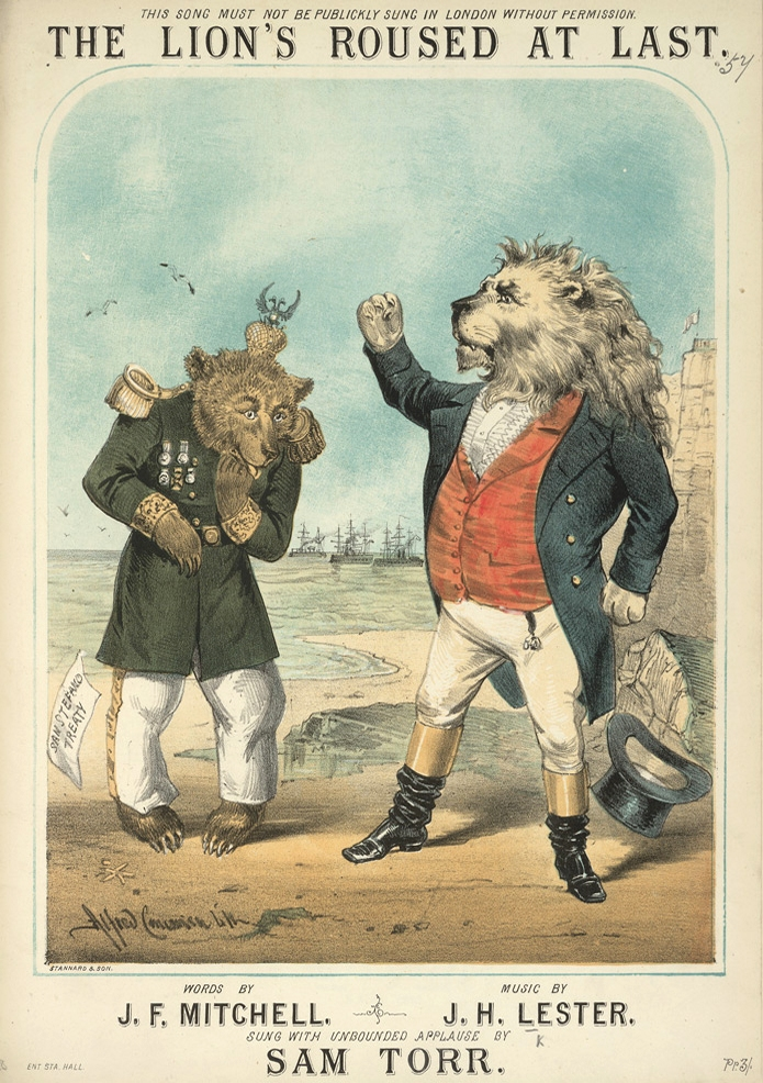 "The Lion's Roused At Last" (cover)